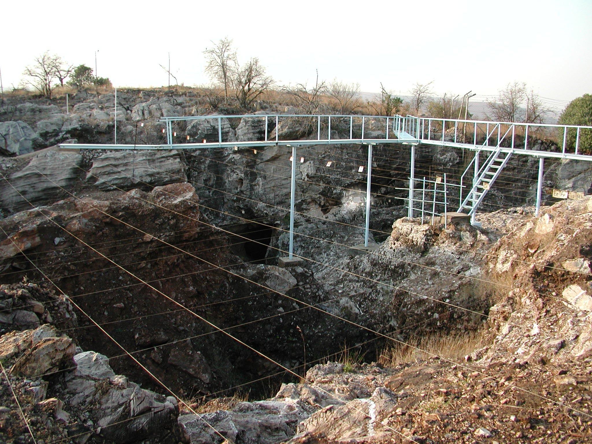 Excavations at Sterkfontein continue to the present day. A reference grid is seen in this view of the region in which the skull of Mrs. Ples was discovered. A plaque commemorating the discovery is visible on the far side of the excavation at the site where the skull was found.